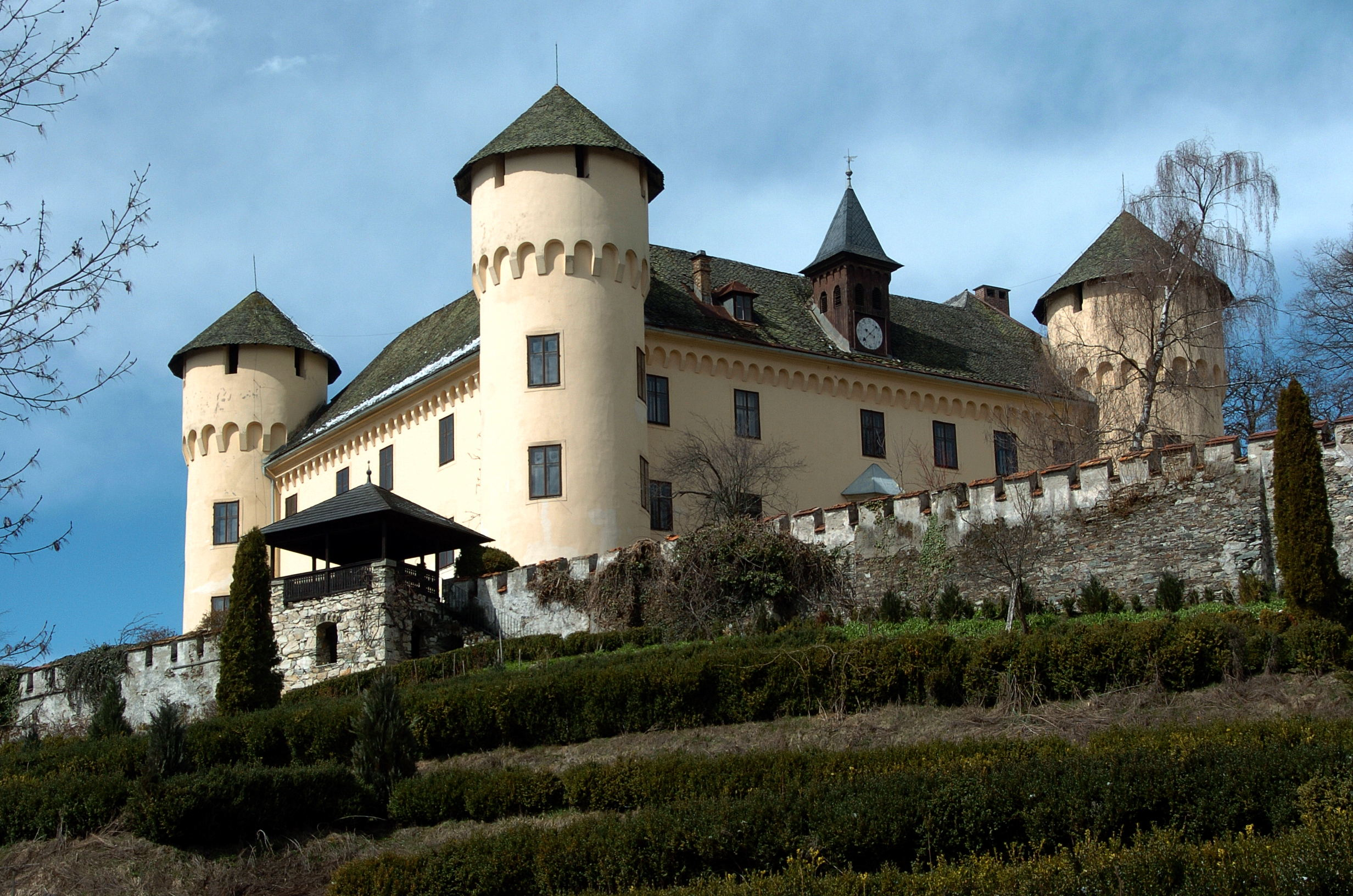 “Castle Tentschach”, situated in the 14th district Woelfnitz of the Carinthian capital Klagenfurt on the Lake Woerth, Carinthia, Austria